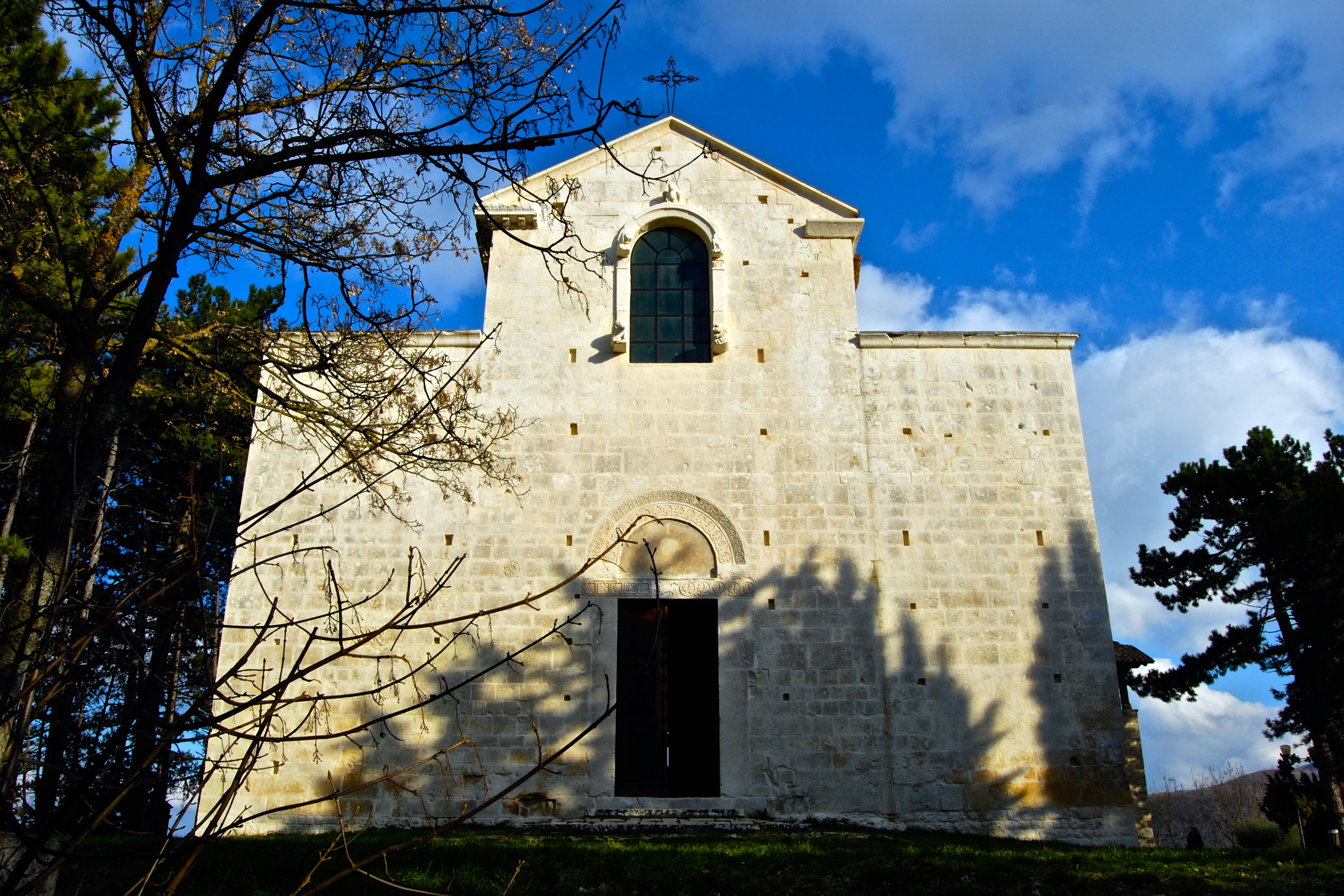 Façade of the Church of Santa Maria Assunta in Bominaco, Italy